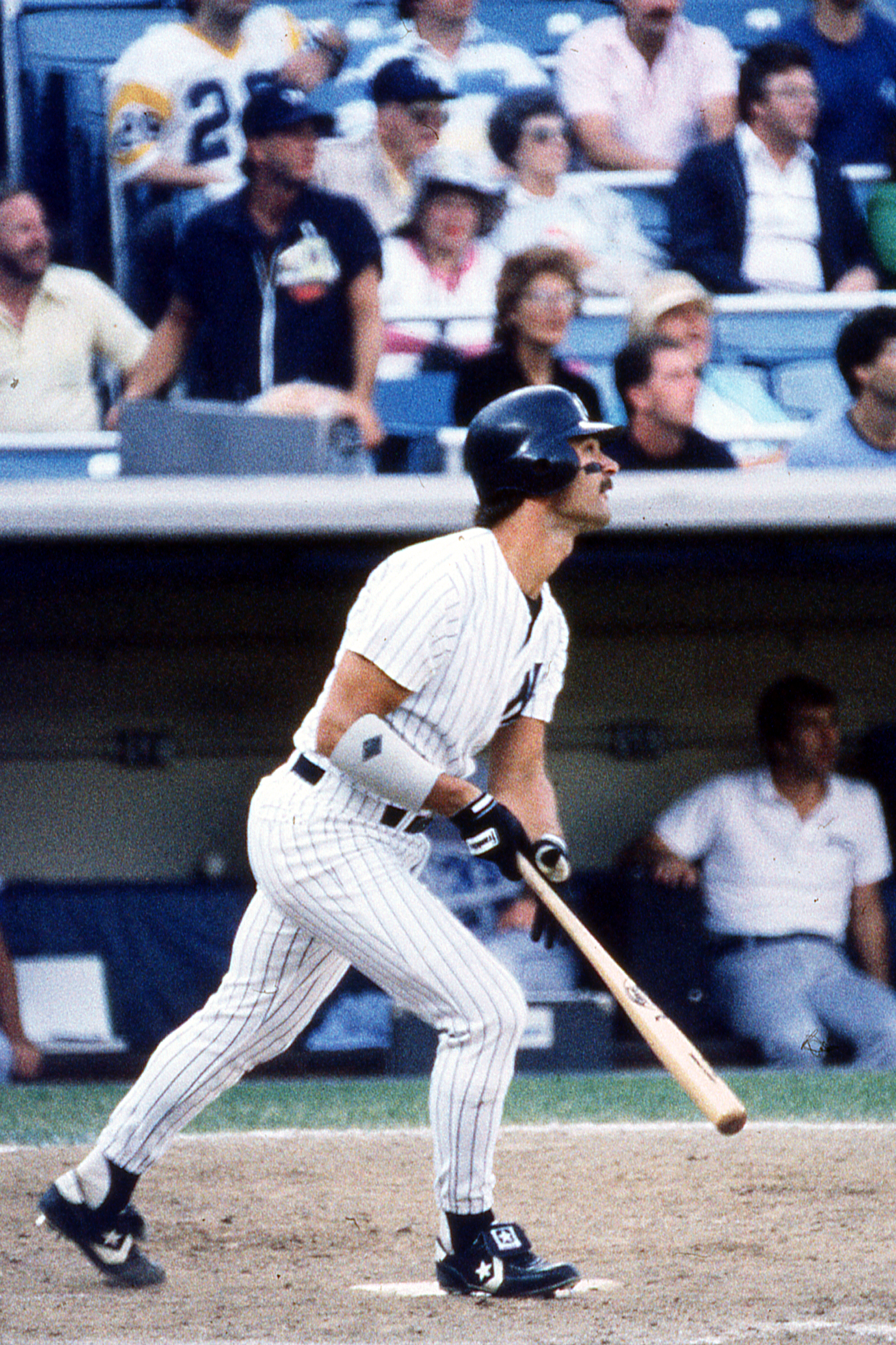 Don Mattingly, New York Yankees first baseman, completes a swing at Yankee Stadium in a game against the Seattle Mariners on August 19, 1988.